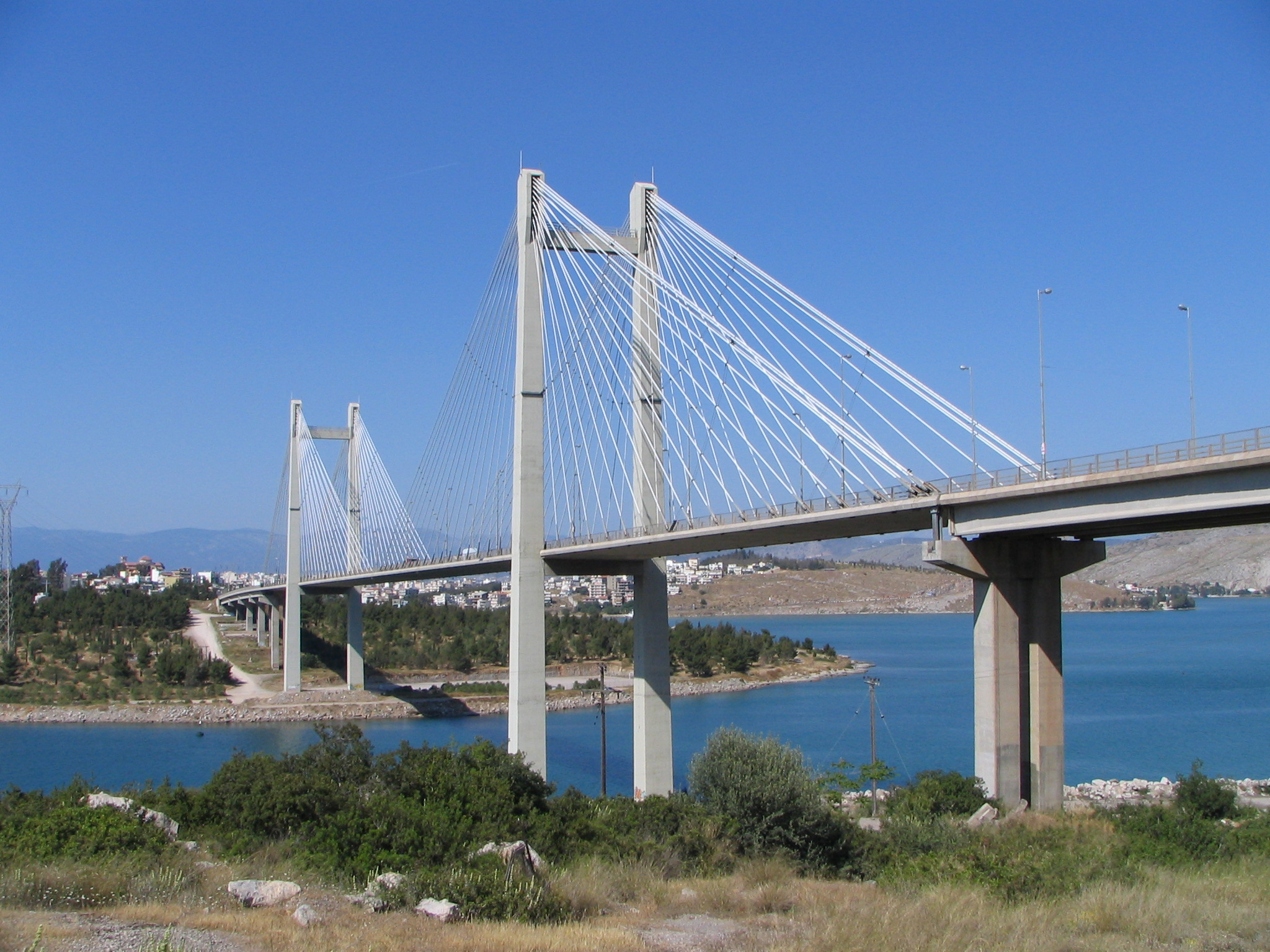 This is the Chalkida Bridge connecting the island "Evia" whith the main land of Greece